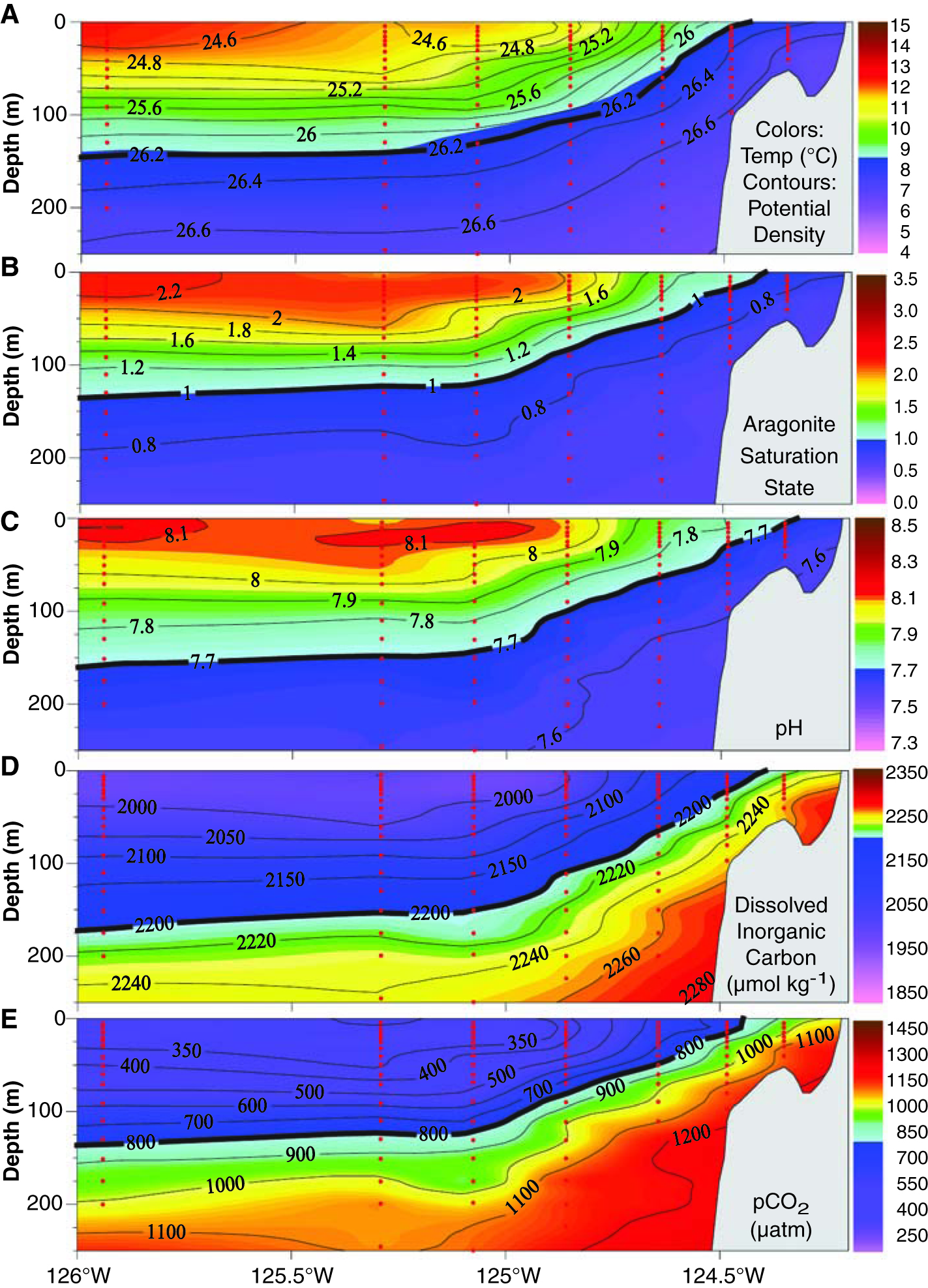 NOAA provides evidence for upwelling of corrosive "acidified" water onto the Continental Shelf. In the figure above, note the vertical sections of (A) temperature, (B) aragonite saturation, (C) pH, (D) DIC, and (E) pCO2 on transect line 5 off Pt. St. George, California. The potential density surfaces are superimposed on the temperature section. The 26.2 potential density surface delineates the location of the first instance in which the undersaturated water is upwelled from depths of 150 to 200 m onto the shelf and outcropping at the surface near the coast. The red dots represent sample locations